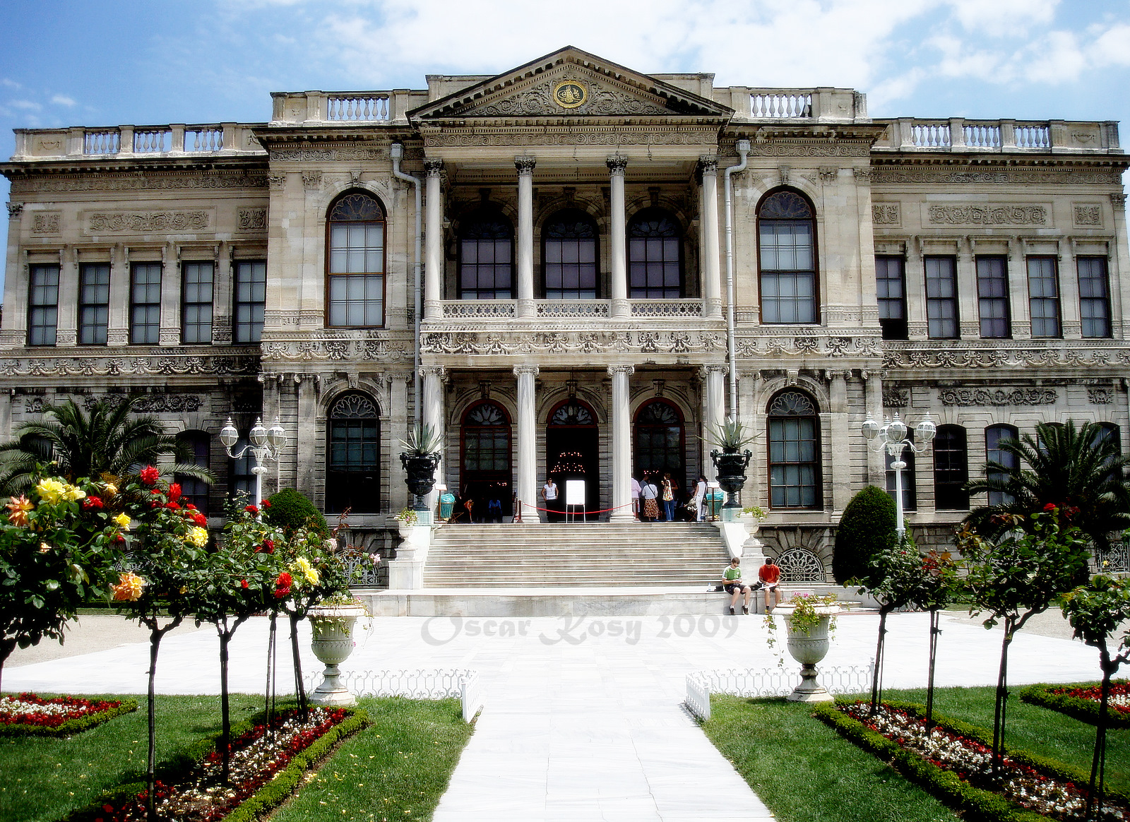 Dolmabahce Palace, Turkey